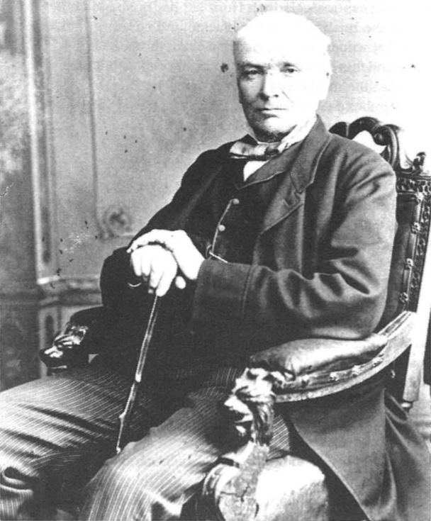 Photograph of a victorian gentleman, George William Rusden, seated in a chair clutching a cane